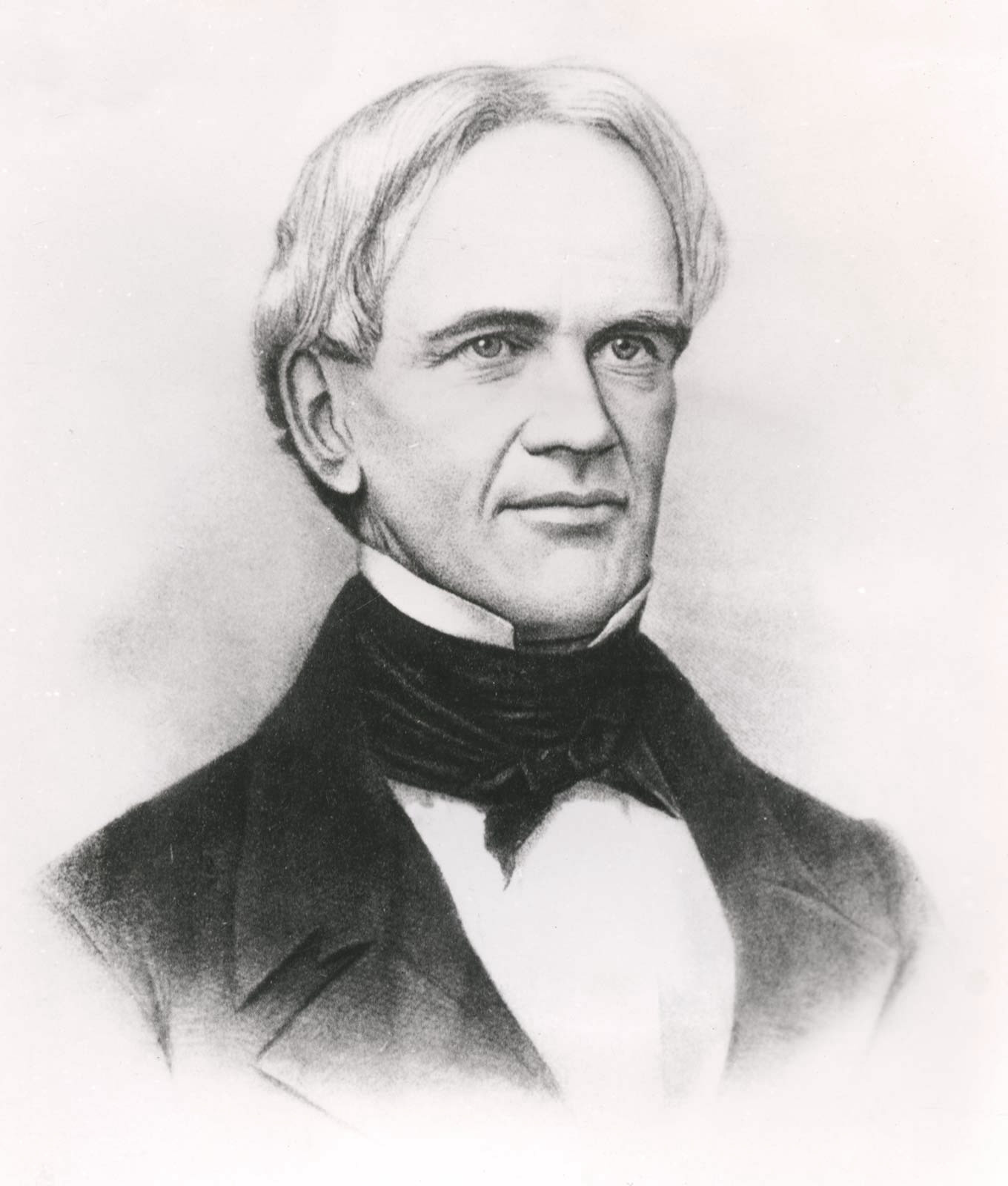 Portrait of Horace Mann from a selection of public domain portraits of historical figures at the Perry-Castañeda Library, University of Texas at Austin.